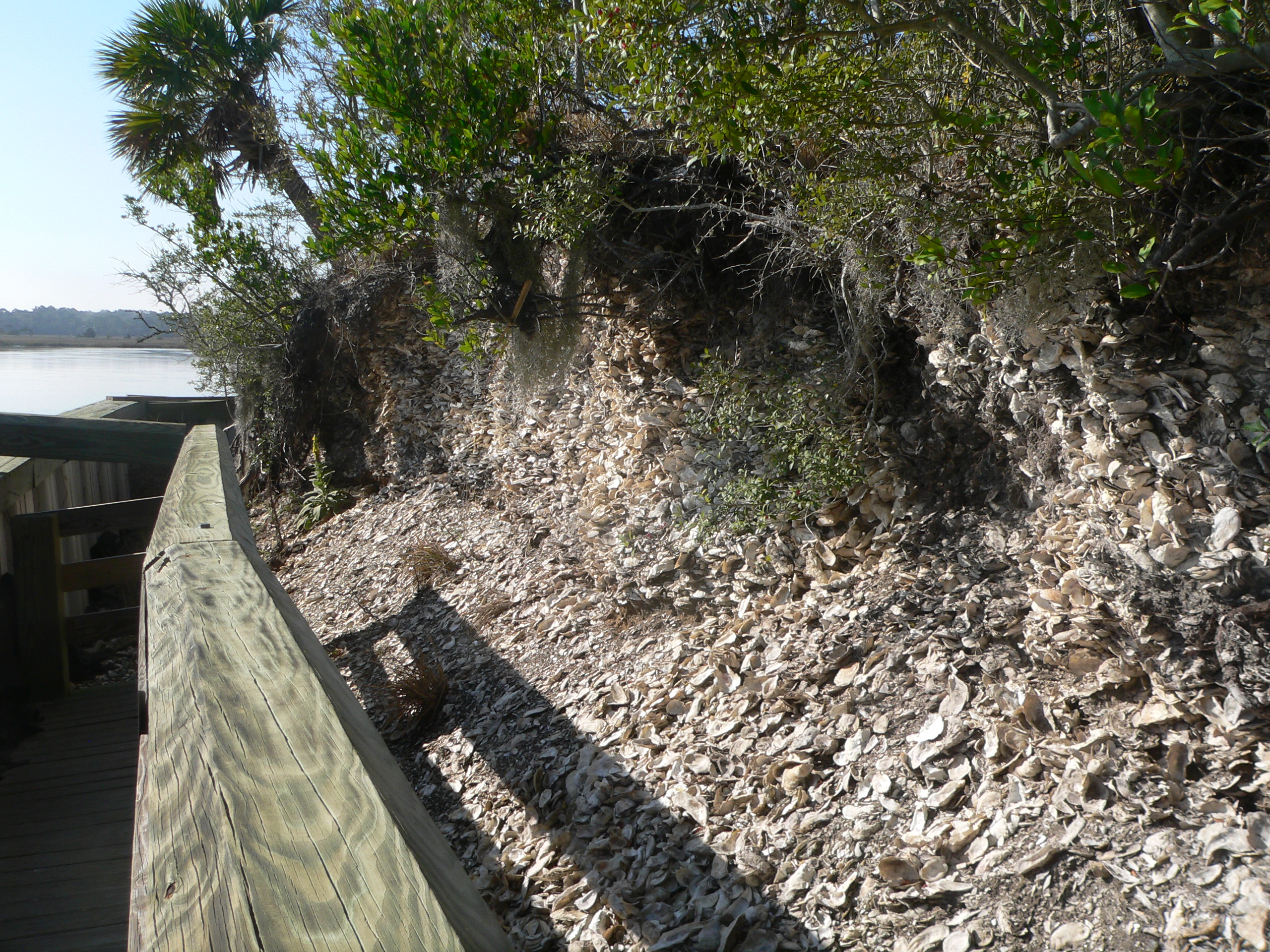 Detail of the Spanish Mount shell midden at Edisto Beach State Park, South Carolina. Photograph was taken from the boardwalk.